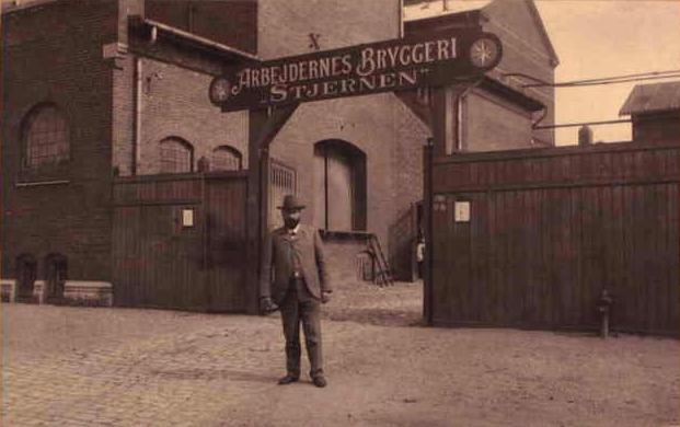 Arbejdernes Bryggeri - Stjernen (The Workers Brewery, The Star), Danish brewery in Frederiksberg, est. 1902, closed 1964